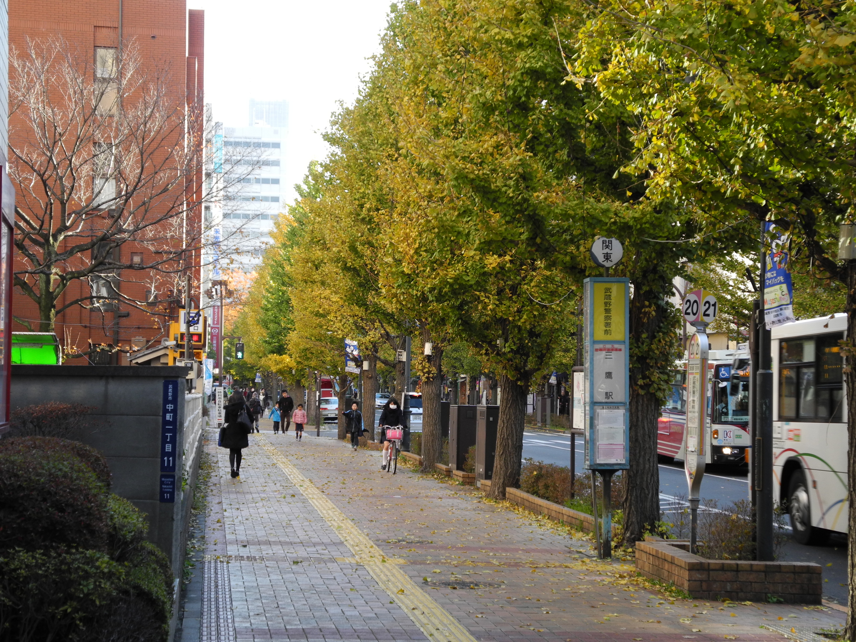 Sidewalk of a main street in late autumn. North of Mitaka Station. Tokyo, Japan.